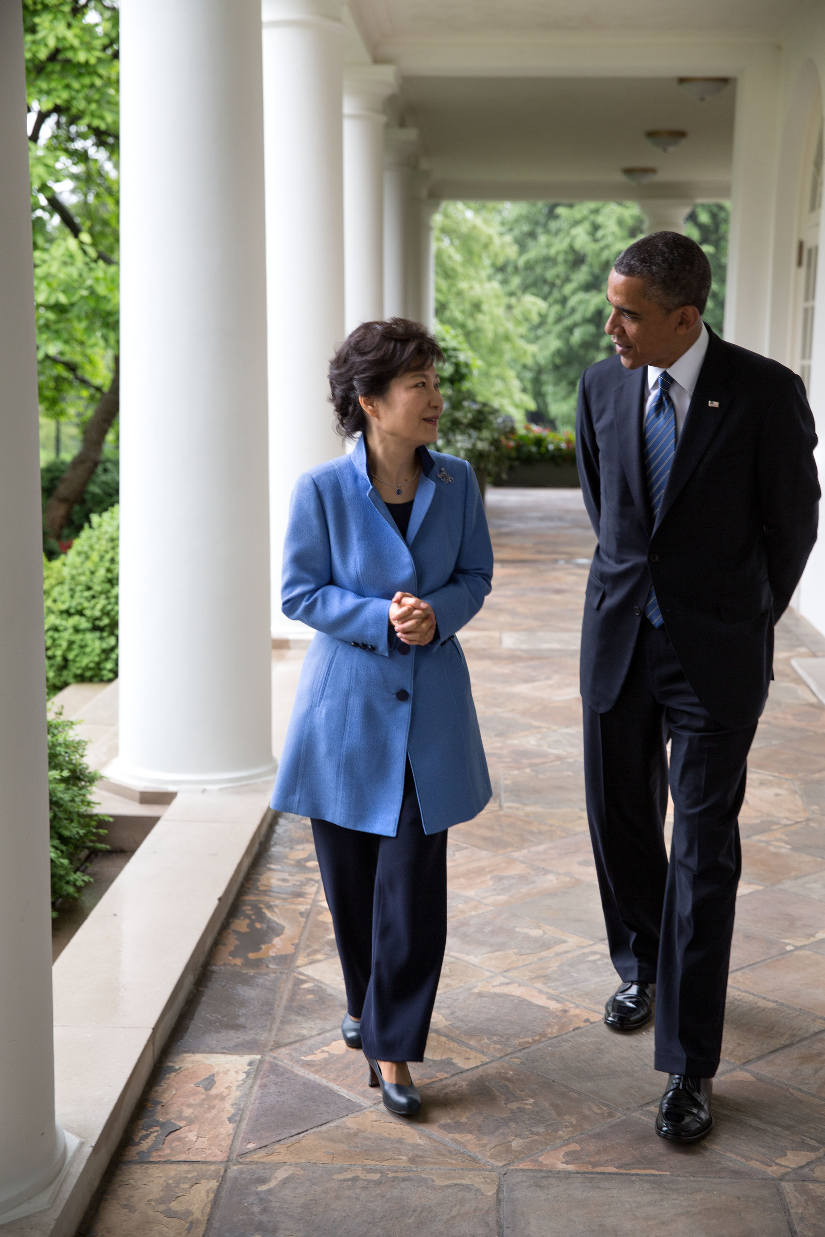 President Barack Obama and President Park Geun-hye of the Republic of Korea walk on the Colonnade of the White House before a working lunch in the Cabinet Room, May 7, 2013. (Official White House Photo by Pete Souza)